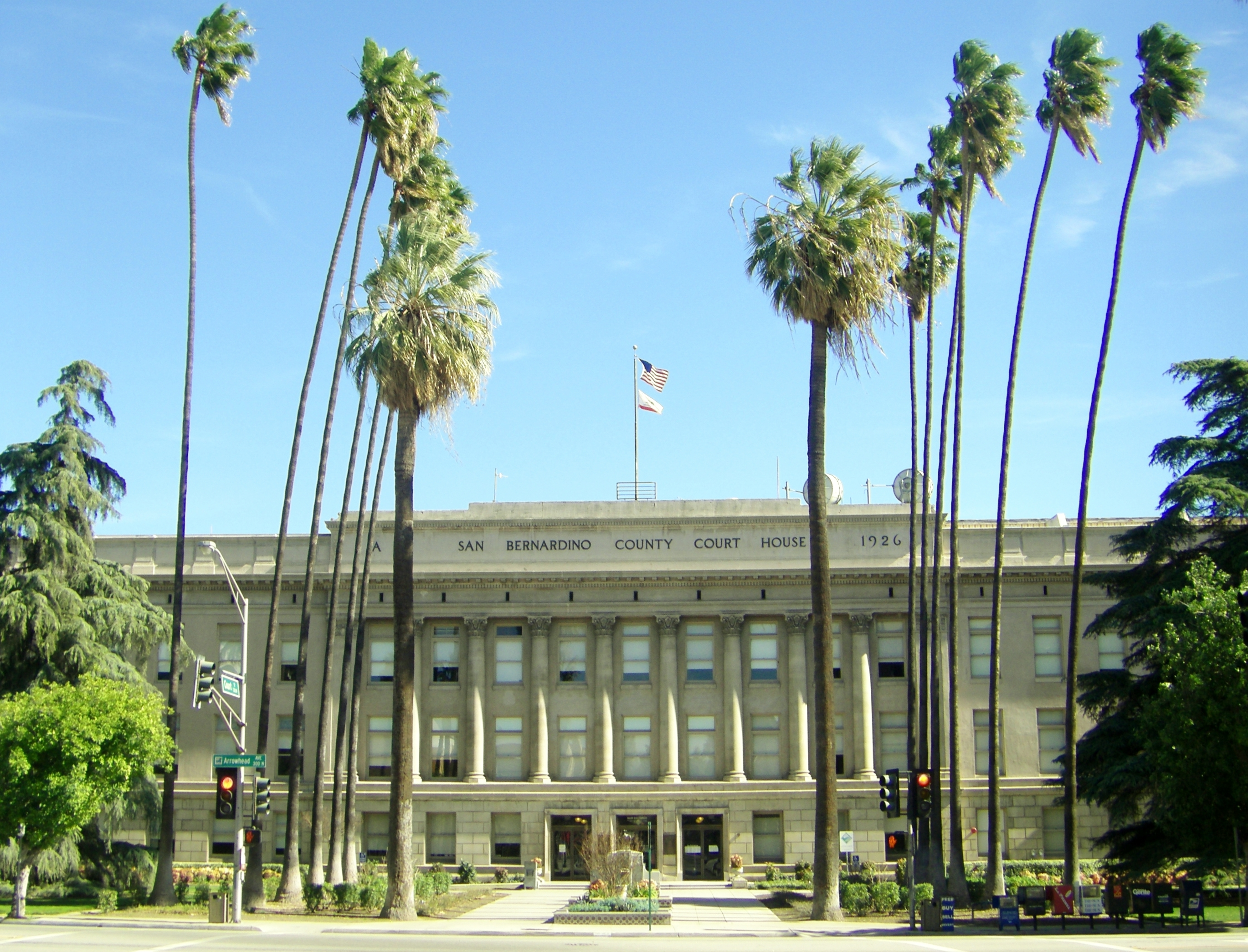 San Bernardino, CA